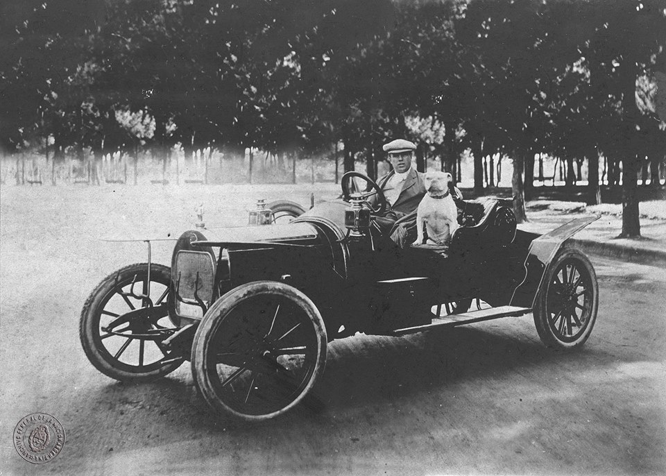 Argentine aviation pioneer, Jorge Newbery, taking a ride with his dog.